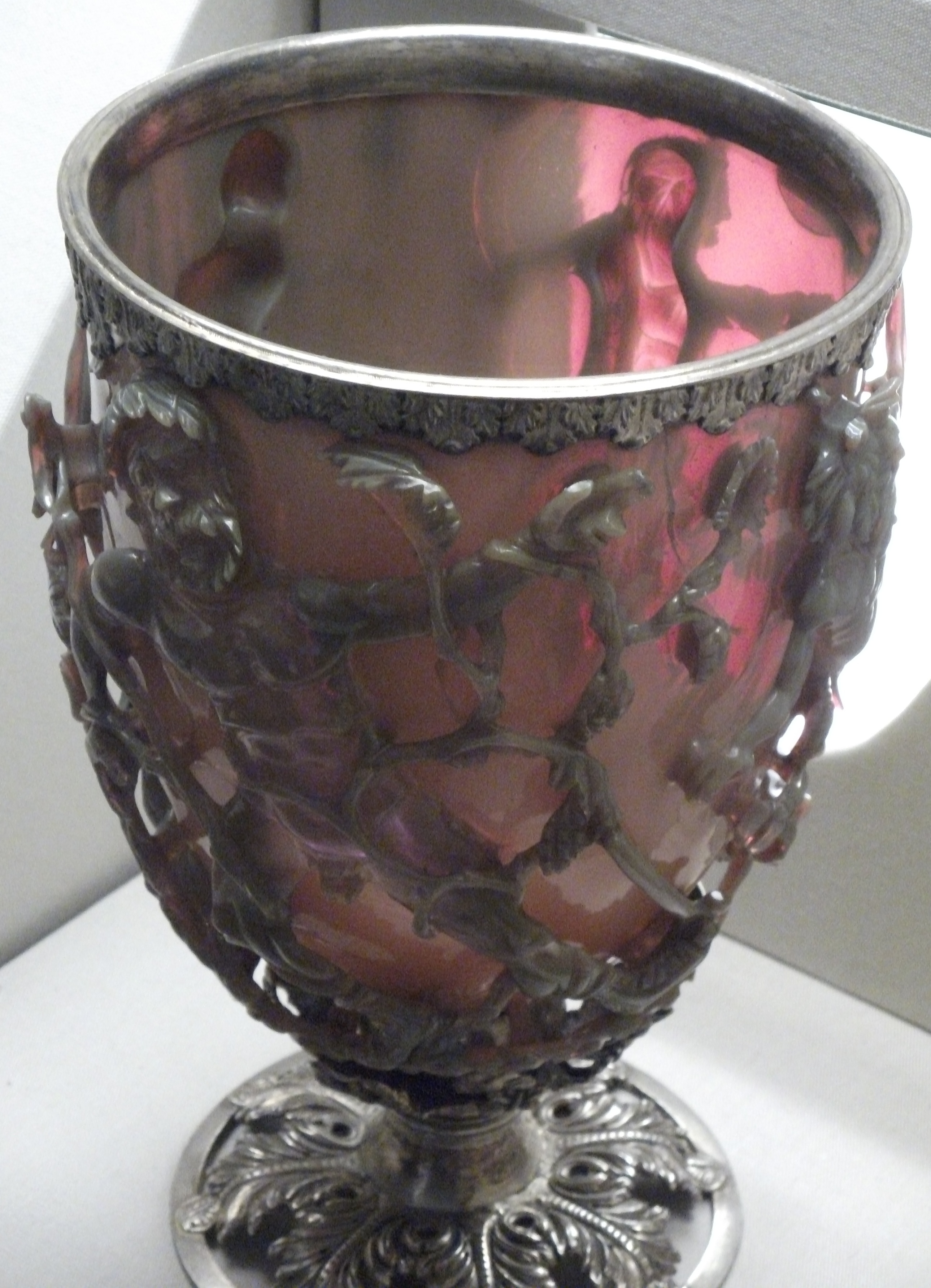 The Lycurgus cup in the British Museum. Made from dichroic Roman glass.